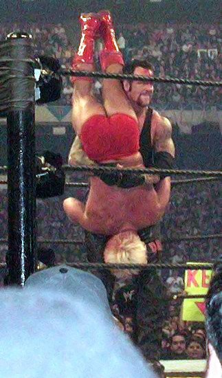 The Undertaker hitting the Tombstone Piledriver on Ric Flair. SkyDome, Toronto, ON, March 172002. Wrestlemania X8.